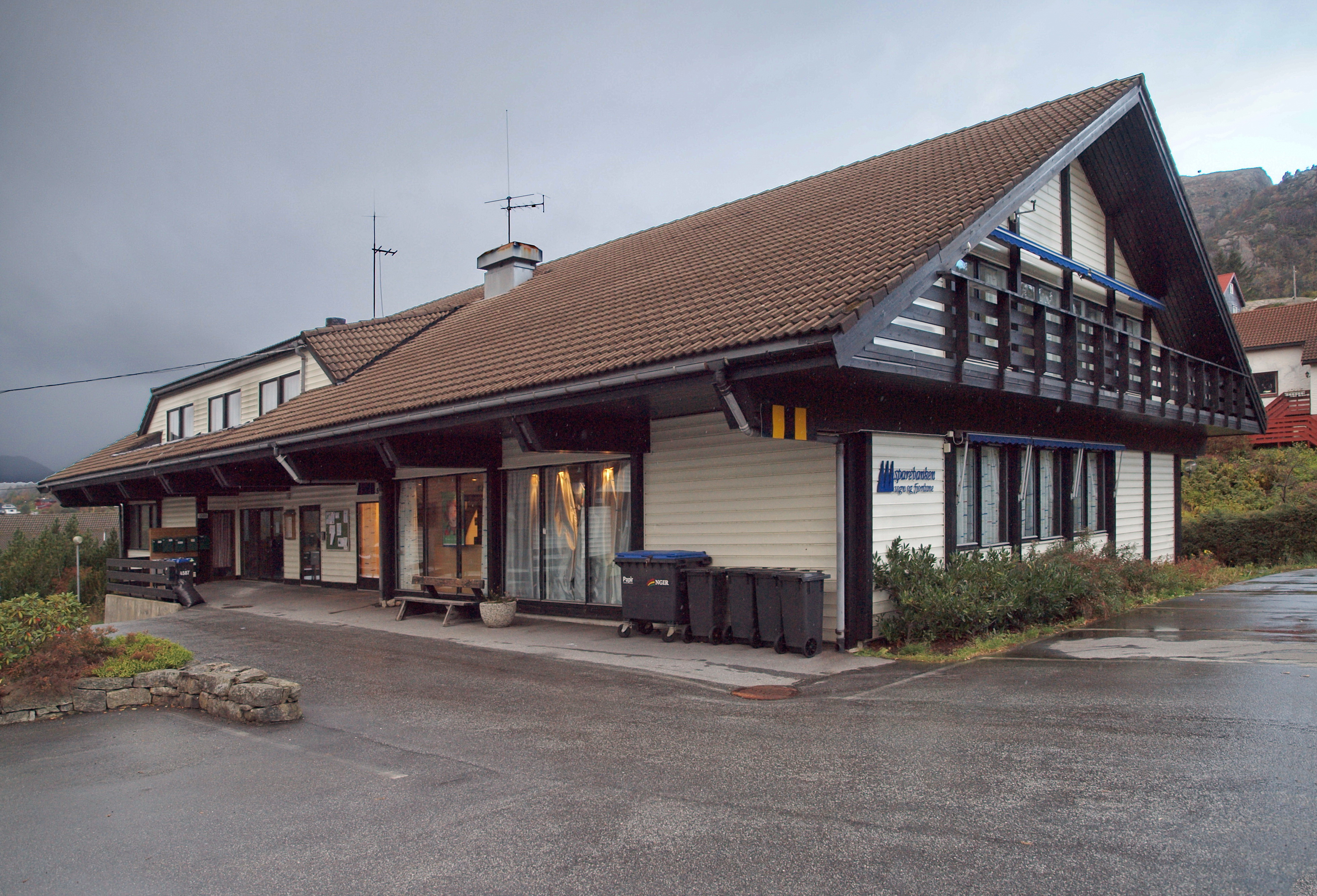 Eivindvik, Gulen municipality, Sogn og Fjordane county, Norway.